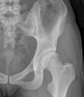 Lines used in X-ray of hip dysplasia in adults.